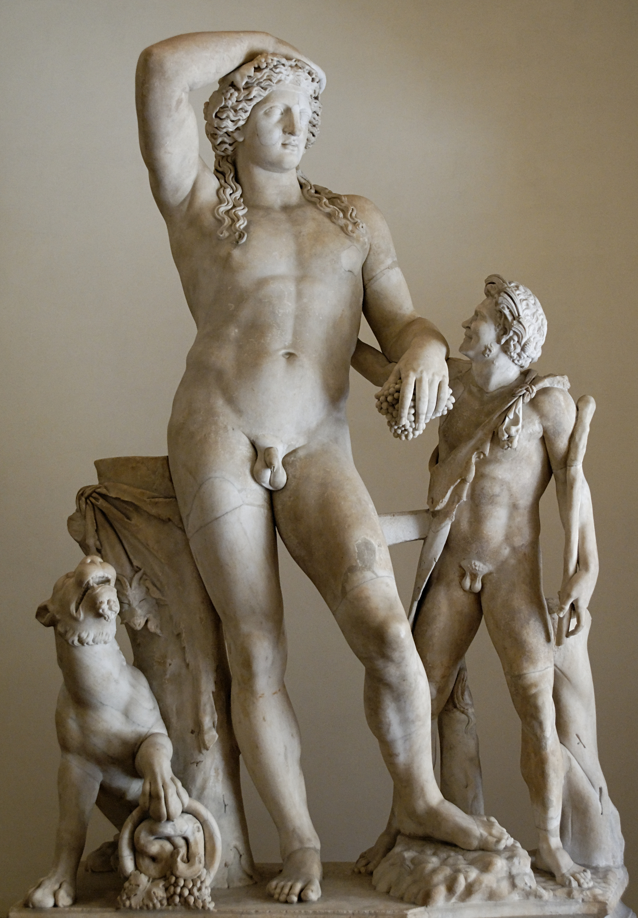 Drunken Dionysos and satyr. Marble, Roman copy from the 2nd century CE after an Hellenistic original. Marble; original elements: heads, torsos and thighs of Dionysos and satyr, right arm of Dionysos; restored elements: legs of Dionysos and satyr, arms of the satyr.